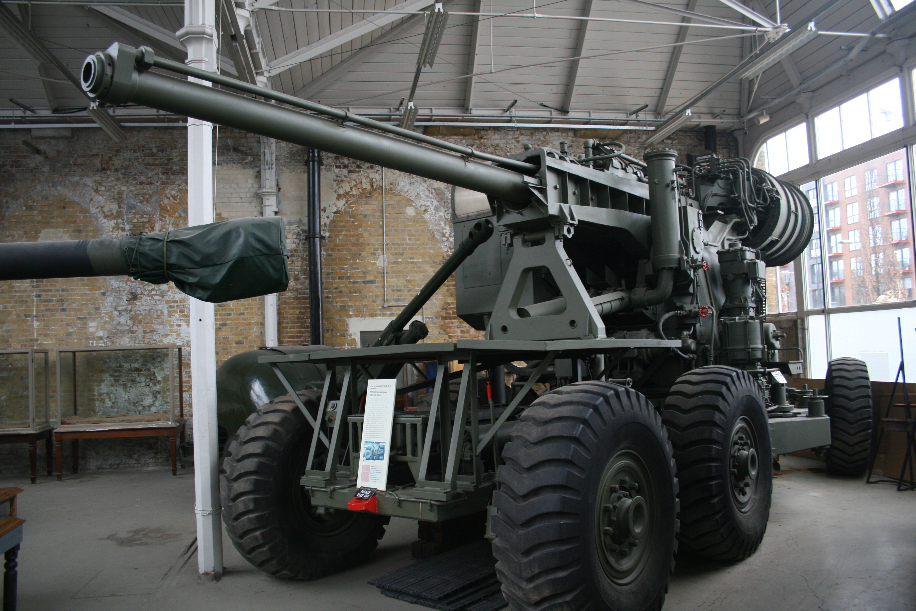 An overall view of the British 1950s AA gun "Green Mace". Taken at the Royal Artillery Barracks, Woolwich.